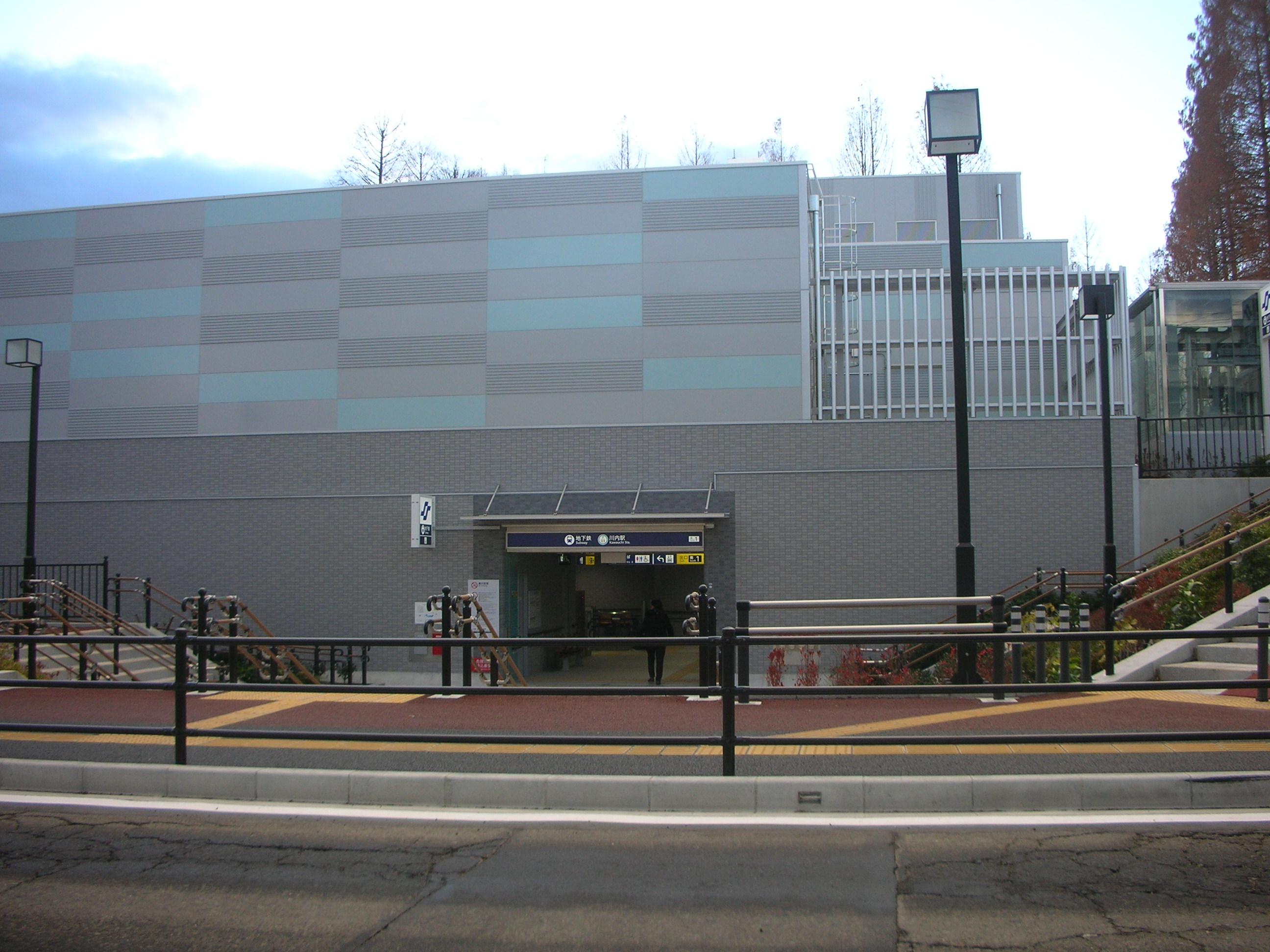 Kawauchi Station on the Sendai Subway Tozai Line